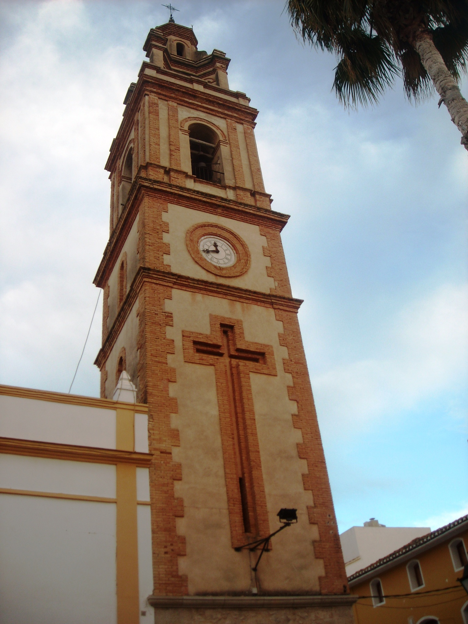 Xeraco Church's Bell tower. Safor. Valencian Country.